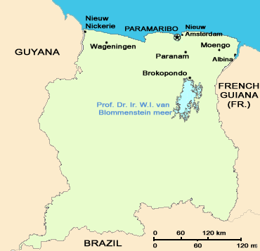 This is image is made ny me in ArcGIS 8 and Adobe Photshop. no copyright (as far as i care)